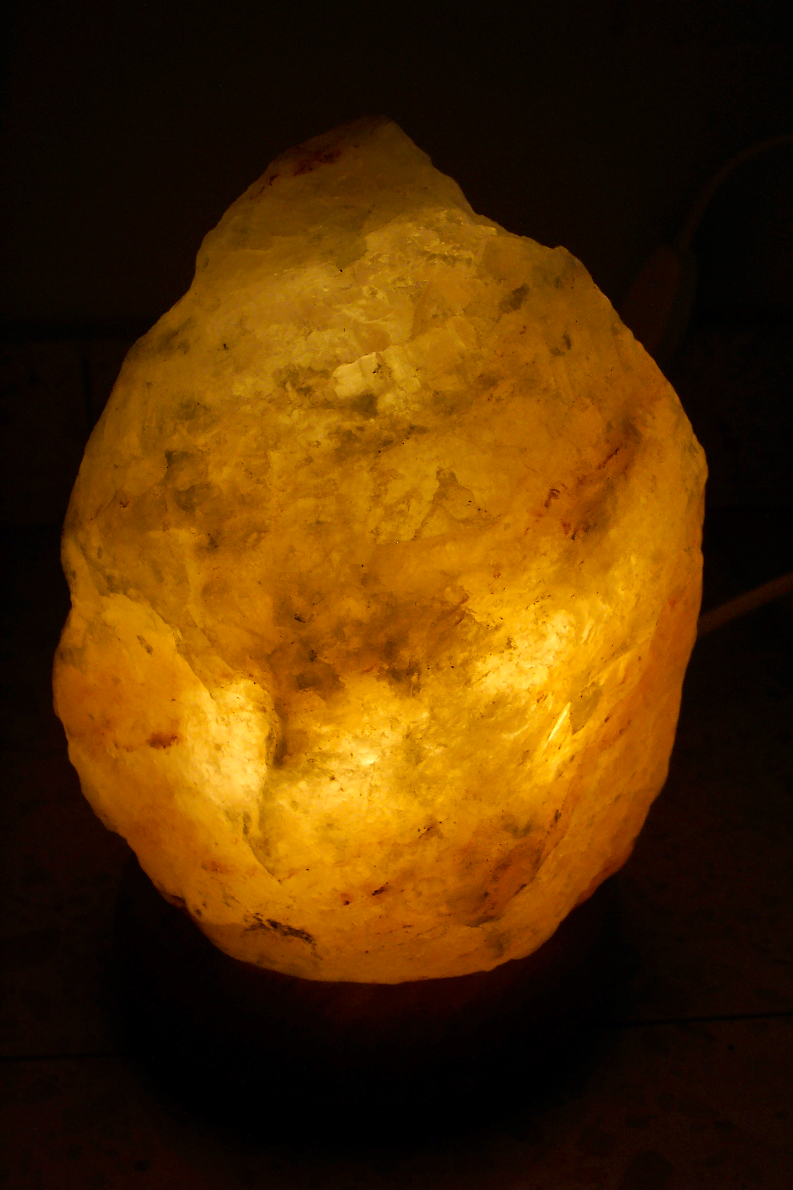 Stones in Israel